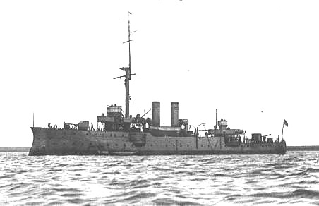 Estonian gunboat Lembit.